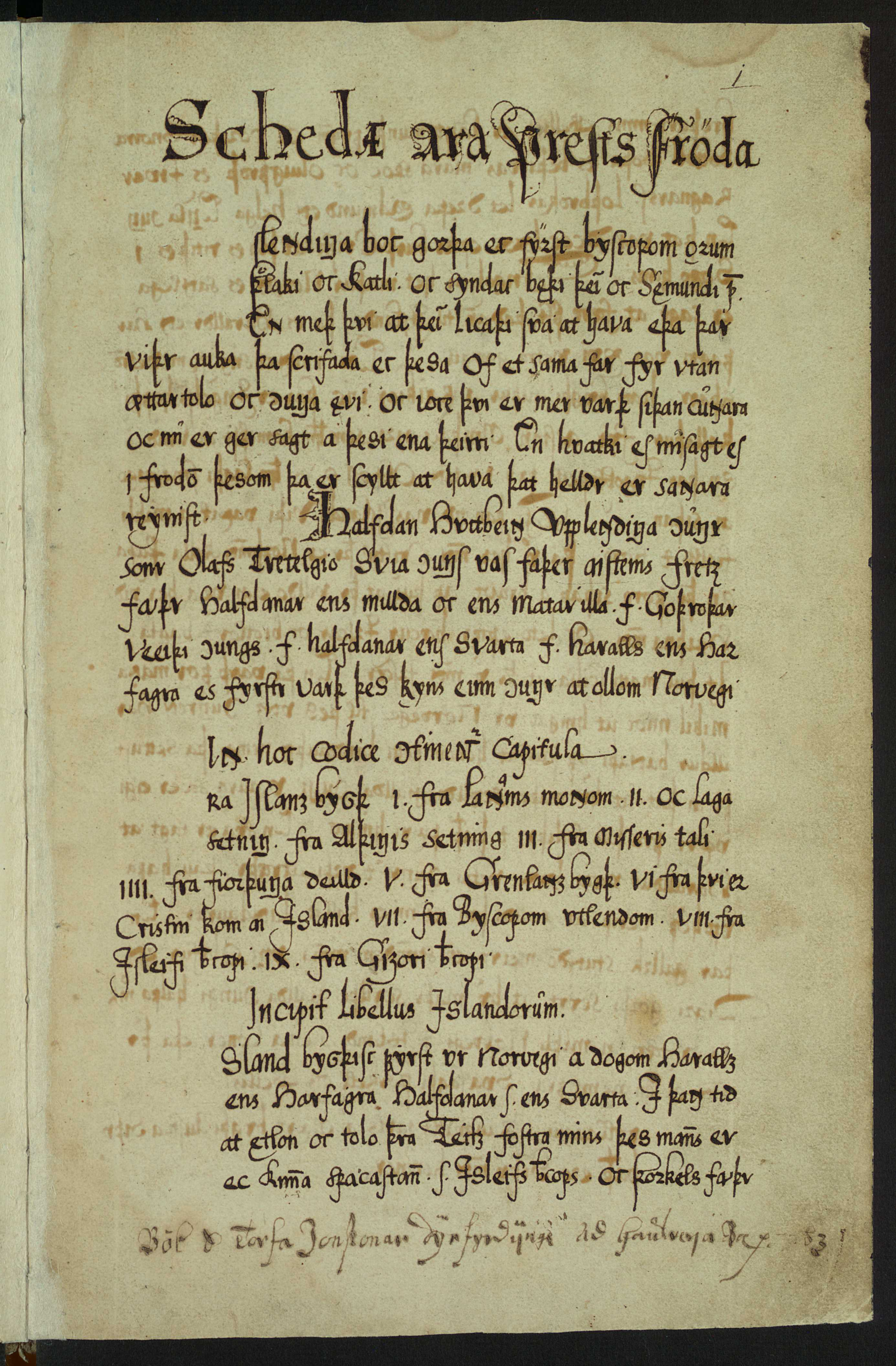 Copy of Íslendingabók by Jón Erlendsson, stored at Árni Magnússon Institute (page 5/25)